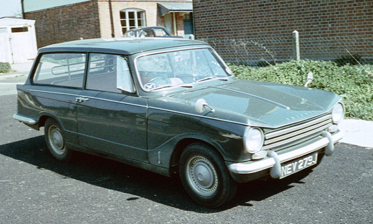 Triumph Herald 13/60 estate towards the ends of the model's life